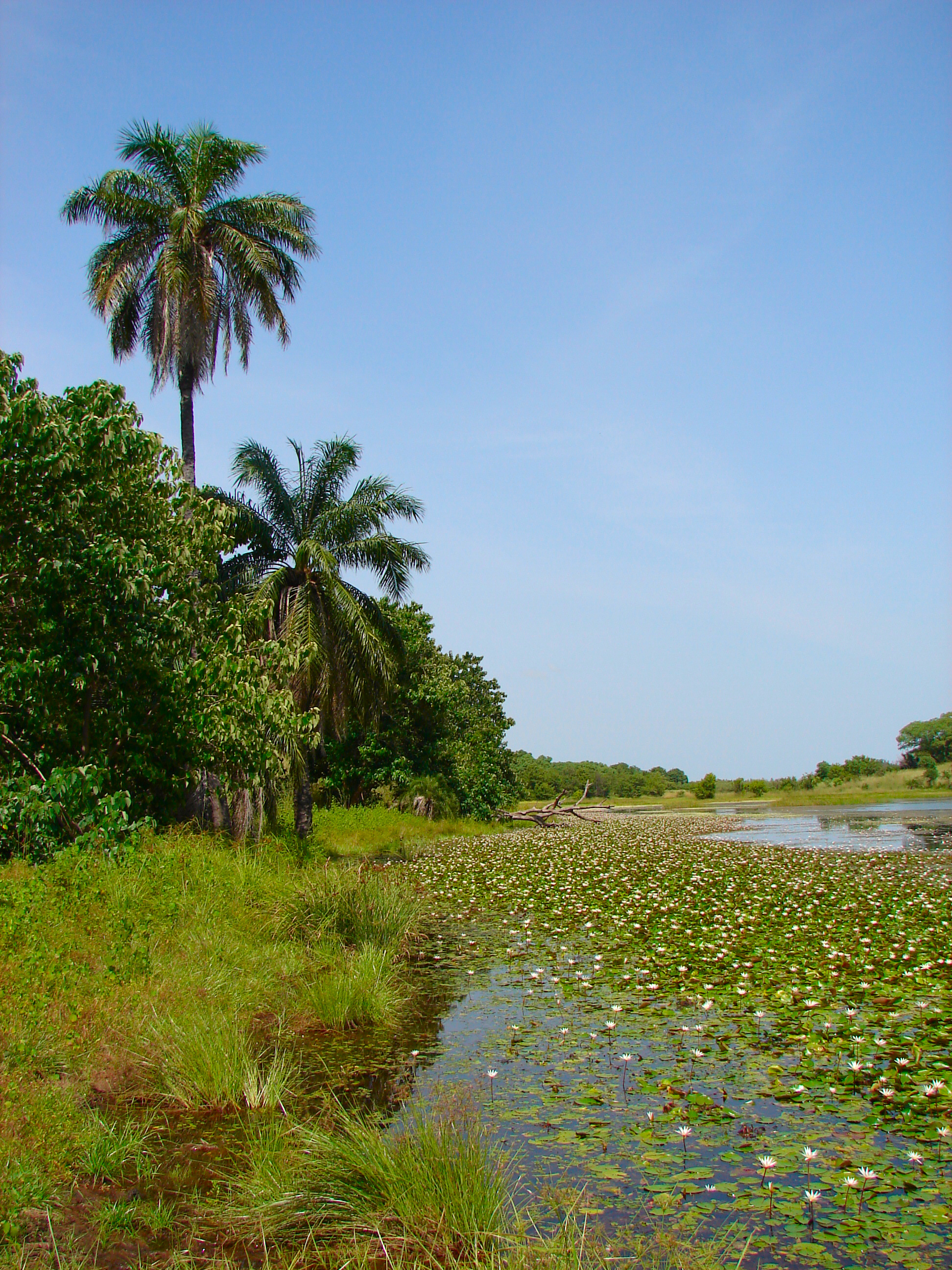 A pond by the river in Kiang West National Park in The Gambia.